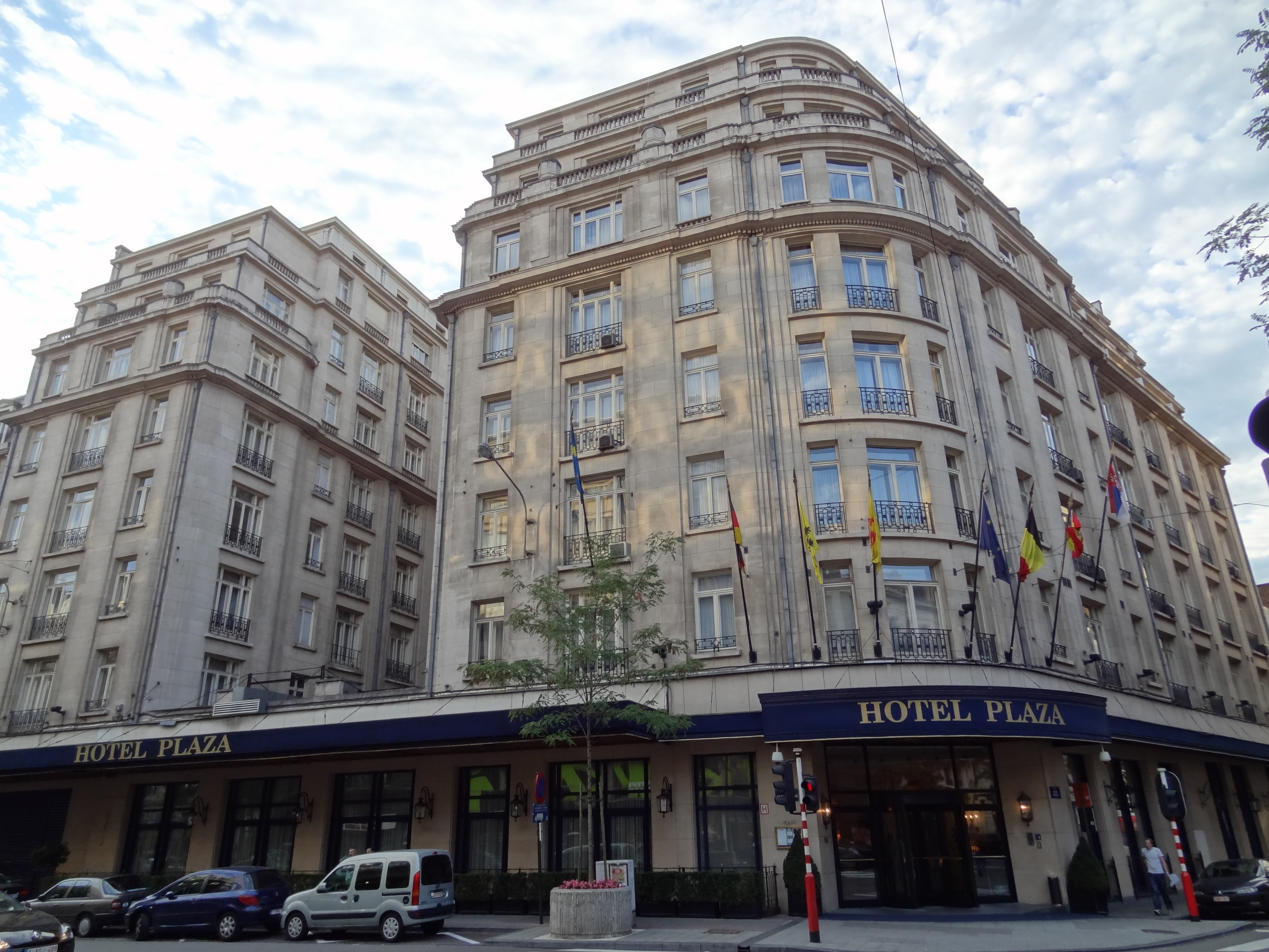 Adolphe Maxlaan 118, Brussels - former cinema Plaza